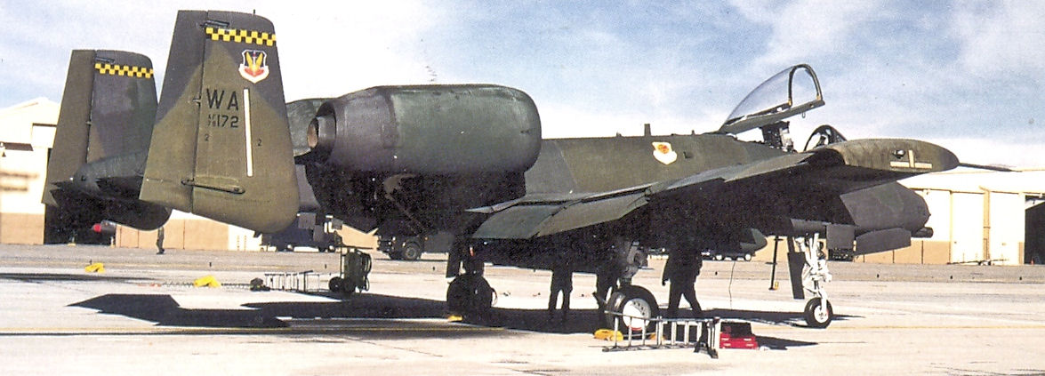 A-10A 79-0172 Fighter Weapons School Nellis AFB